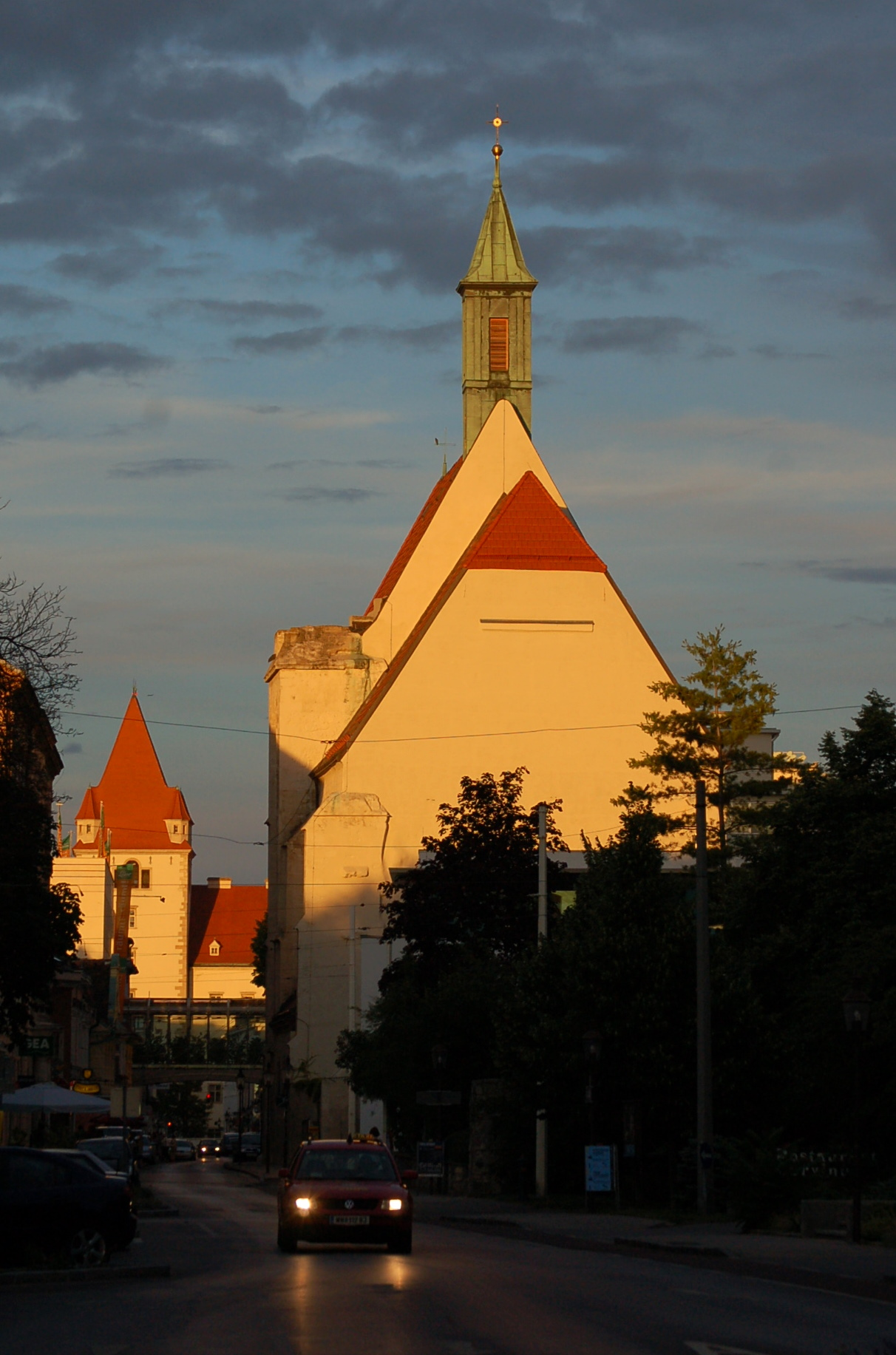 Kapuzinerkirche (Church of Friars Minor Capuchin) at Wiener Neustadt, in the background a Tower of the Military Academy